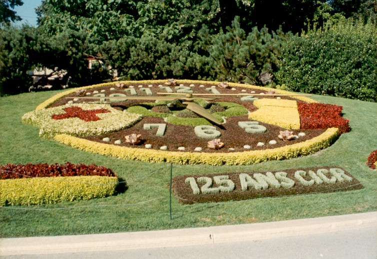 The Flower Clock in Geneva for the 125th anniversary of the ICRC in 1988